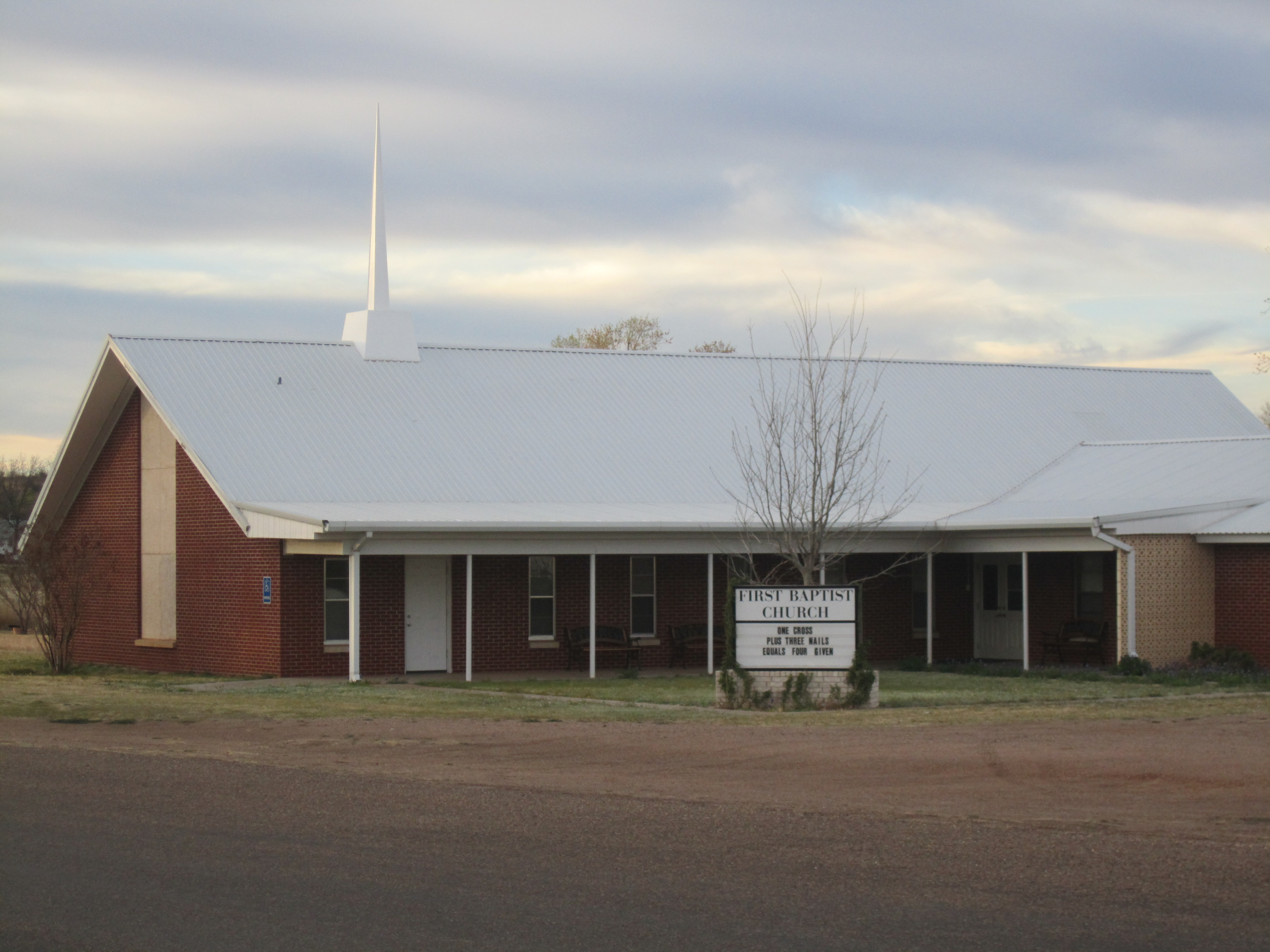 I took photo with Canon camera in Roaring Springs, TX.